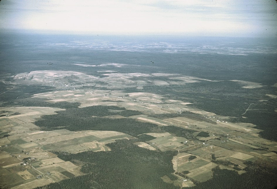 Title: Potato farms in Aroostook County, Me.